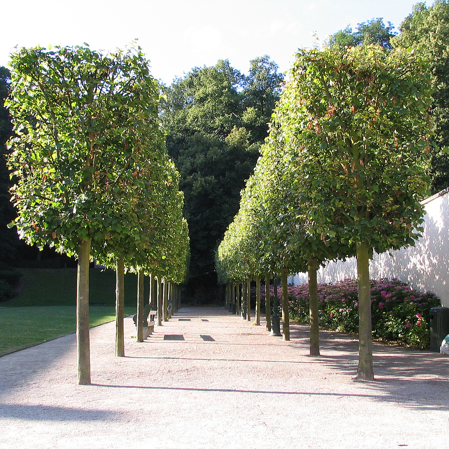 Tilia screen in Ter Kamerenabdij, Brussel